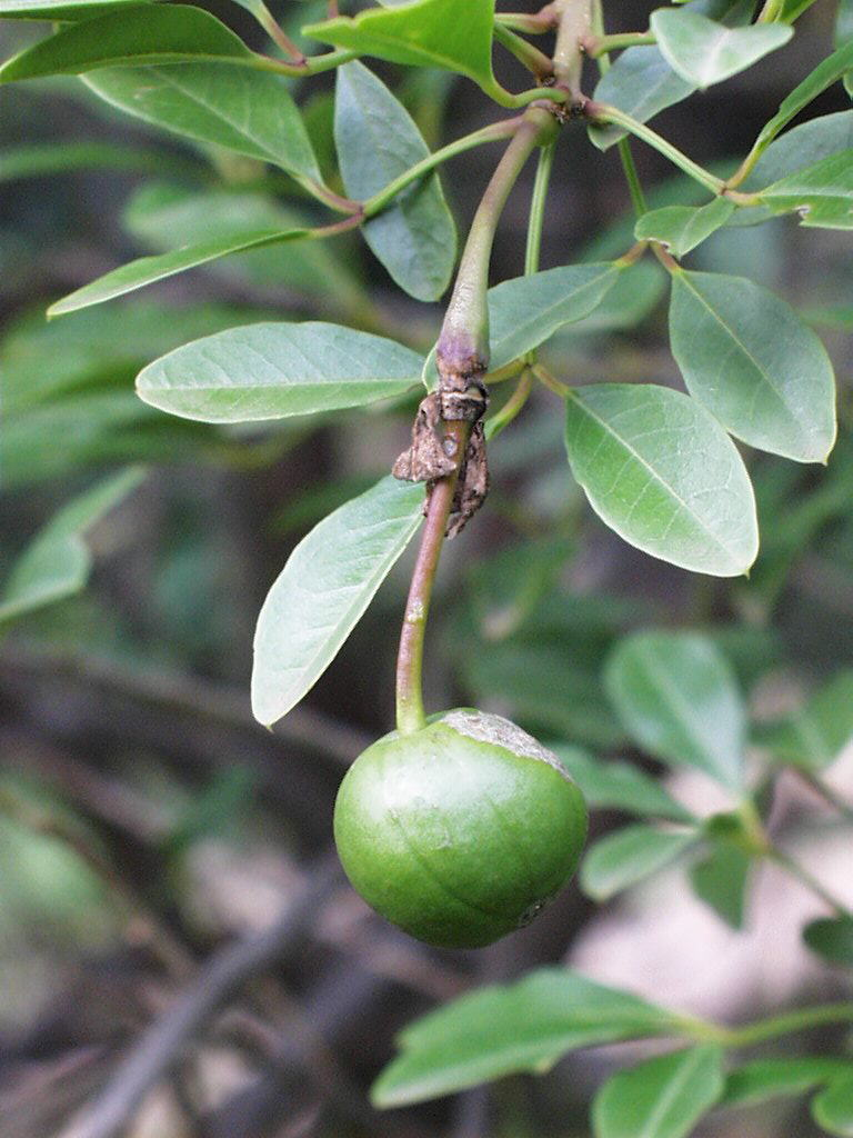 Fruit of Maerua cafra from cultivated tree, Honeydew, Gauteng, South Africa